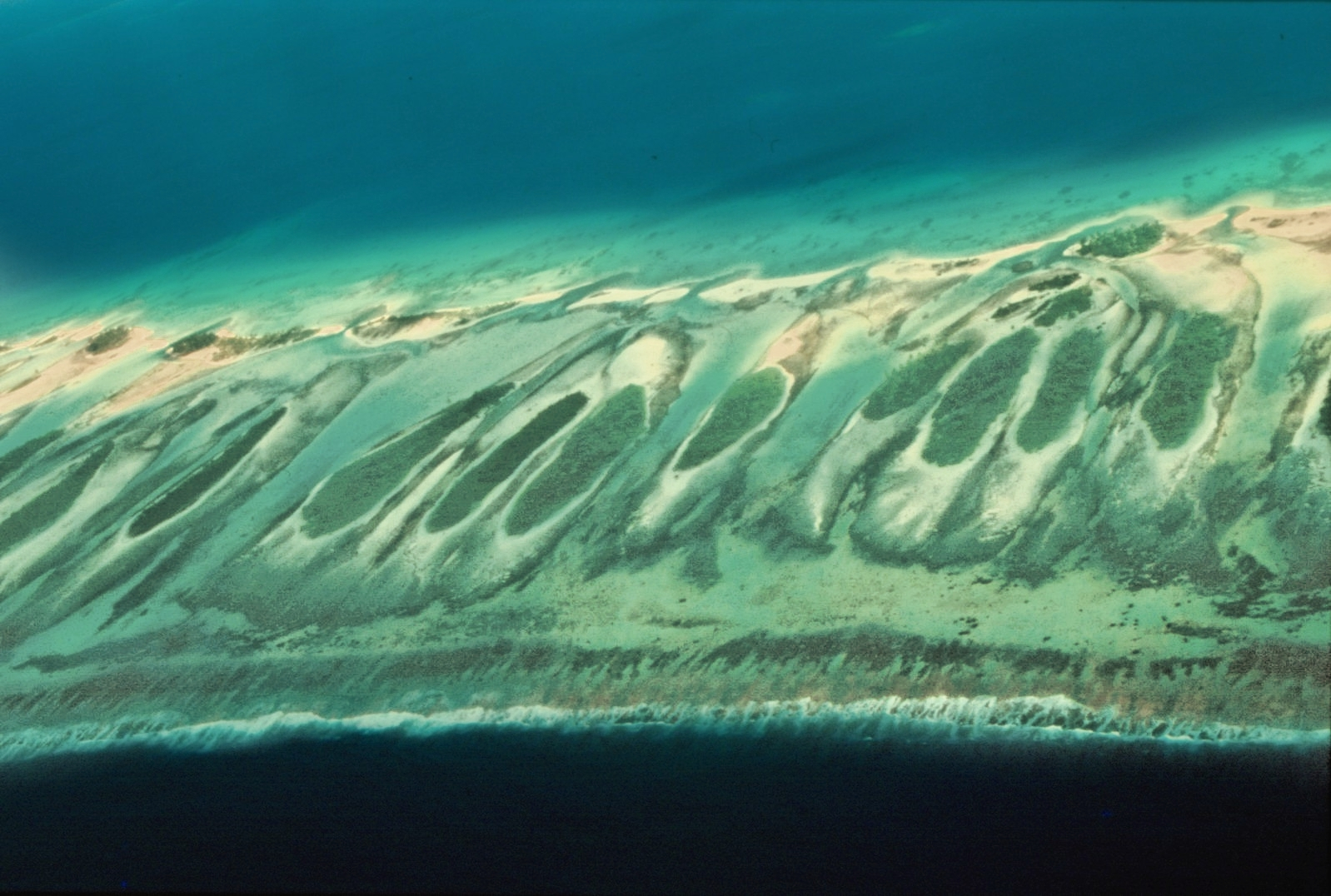 Southeastern part of the Tikehau Atoll (Tuamotu Archipelago, French Polynesia)